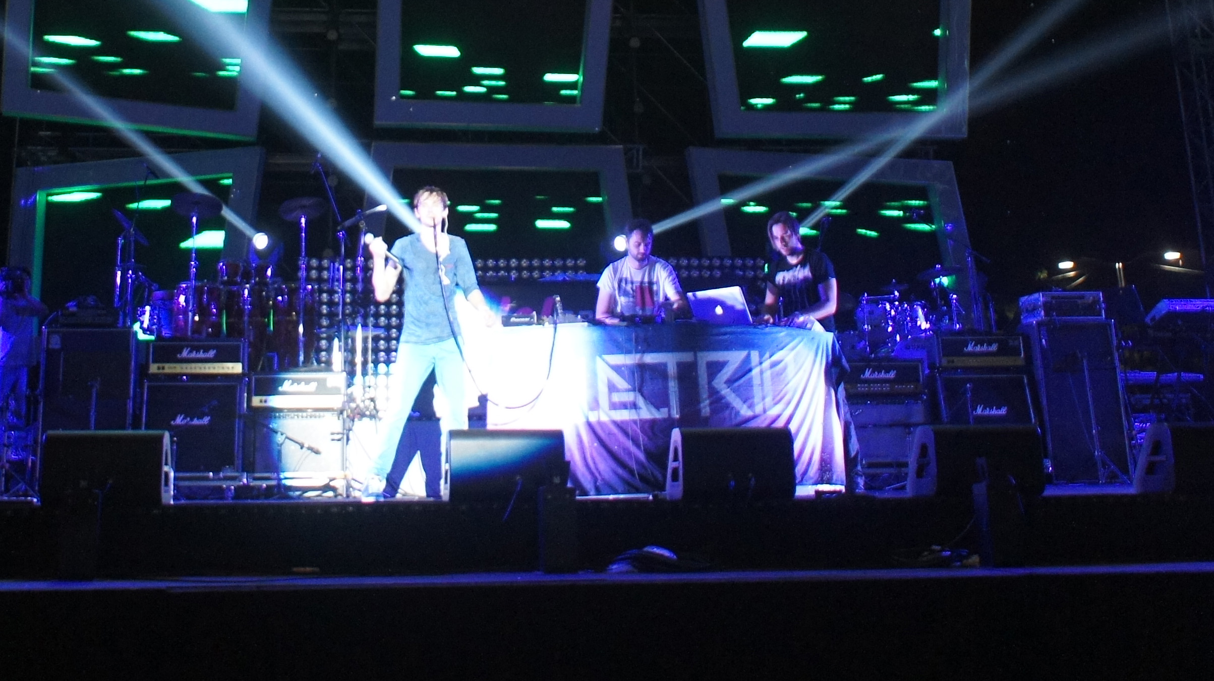 The A.G.Trio performing live at World Electronica Carnival in South Korea, August 2012, from left to right: Roland von der Aist, Aka Tell, Andy Korg